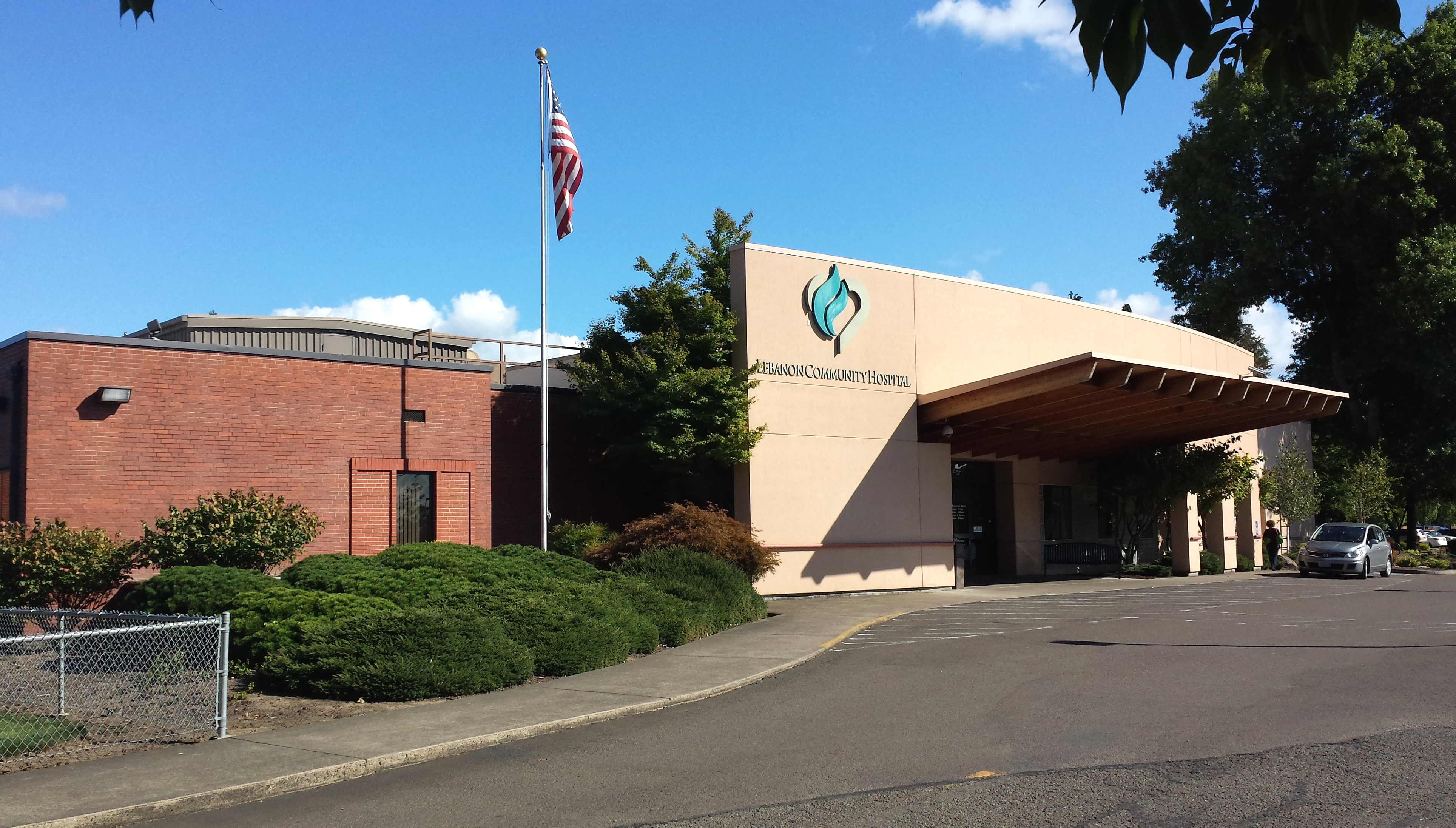 A photograph of Samaritan Lebanon Community Hospital in Lebanon, Oregon, taken September 18th, 2013.